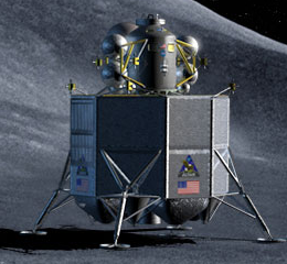 Altair design (original text: NASA's newest Altair design)